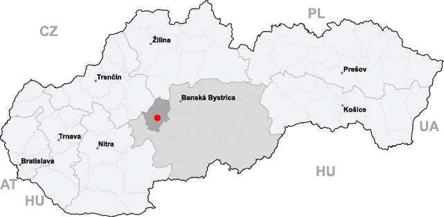 map of Slovakia, city of Žiar nad Hronom highlighted